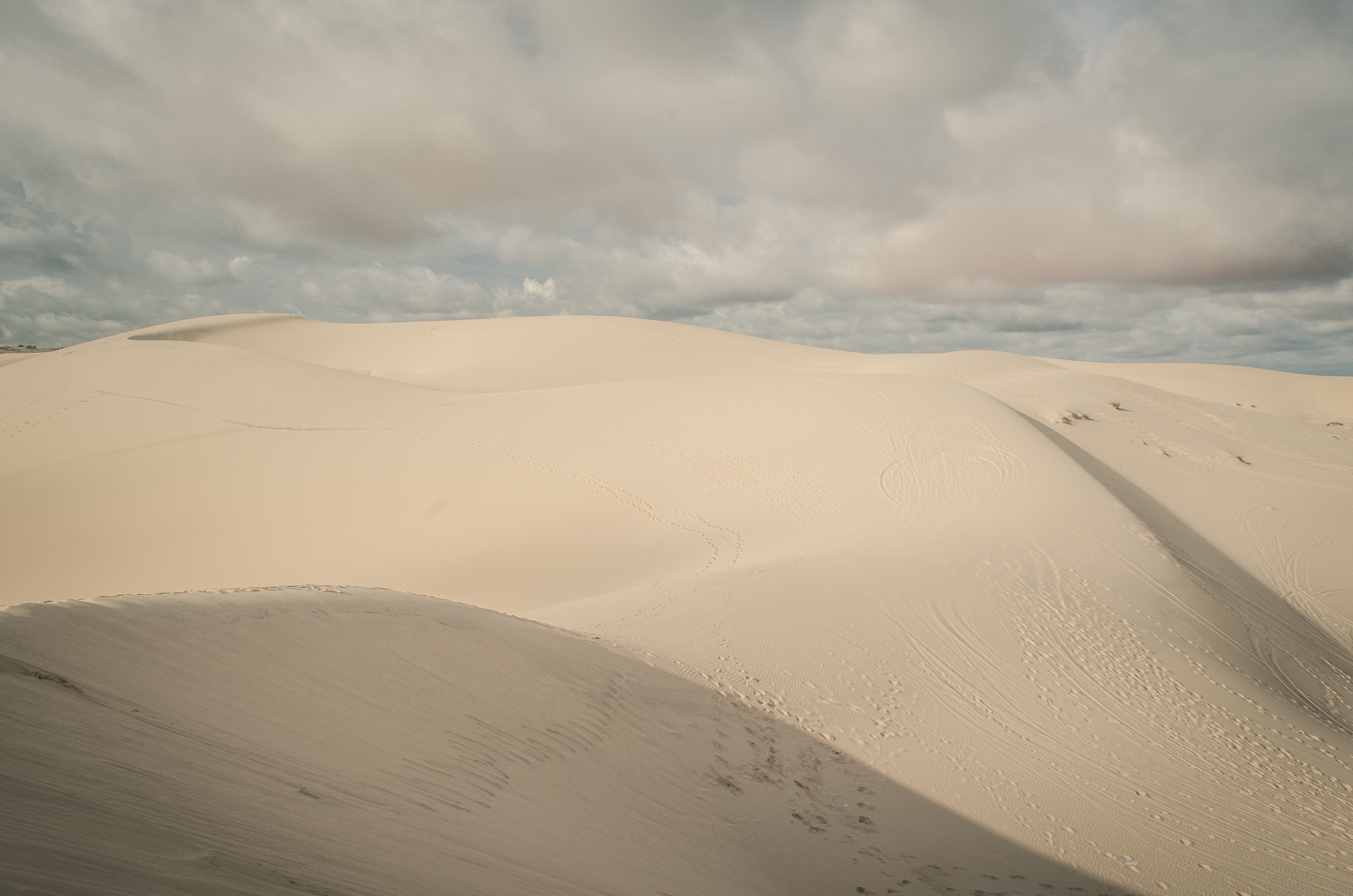 Mui Ne - White sanddunes